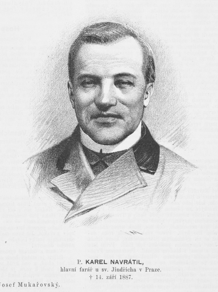 Portrait of Karel Navrátil (1830-1887), Czech Catholic priest that wrote the history of several churches in Prague.